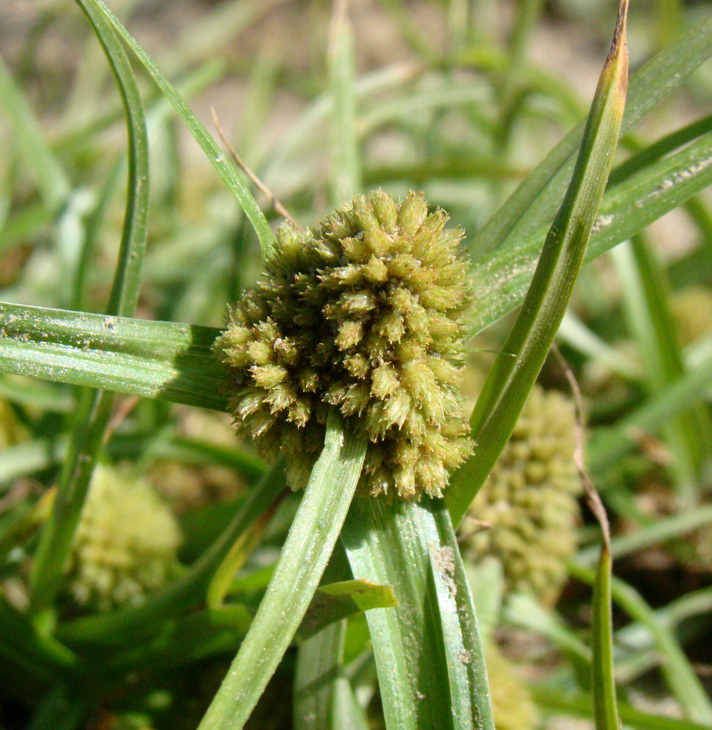 Dichostylis micheliana (syn. Cyperus michelianus). Russia, Krasnodar kray, Ust'-Labinsk. Coast of Kuban River.